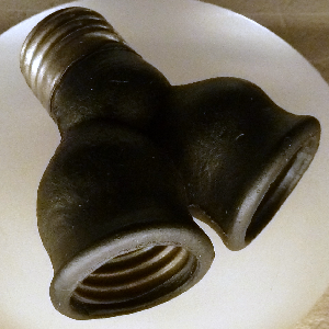 Two way cluster, by Konosuke Matsushita.